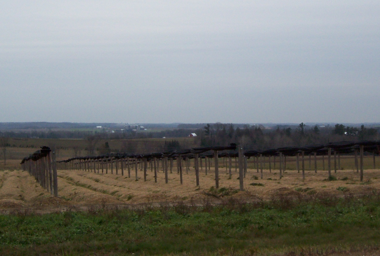 A ginseng field in Marathon County, Wisconsin near Marathon City, Wisconsin, USA.